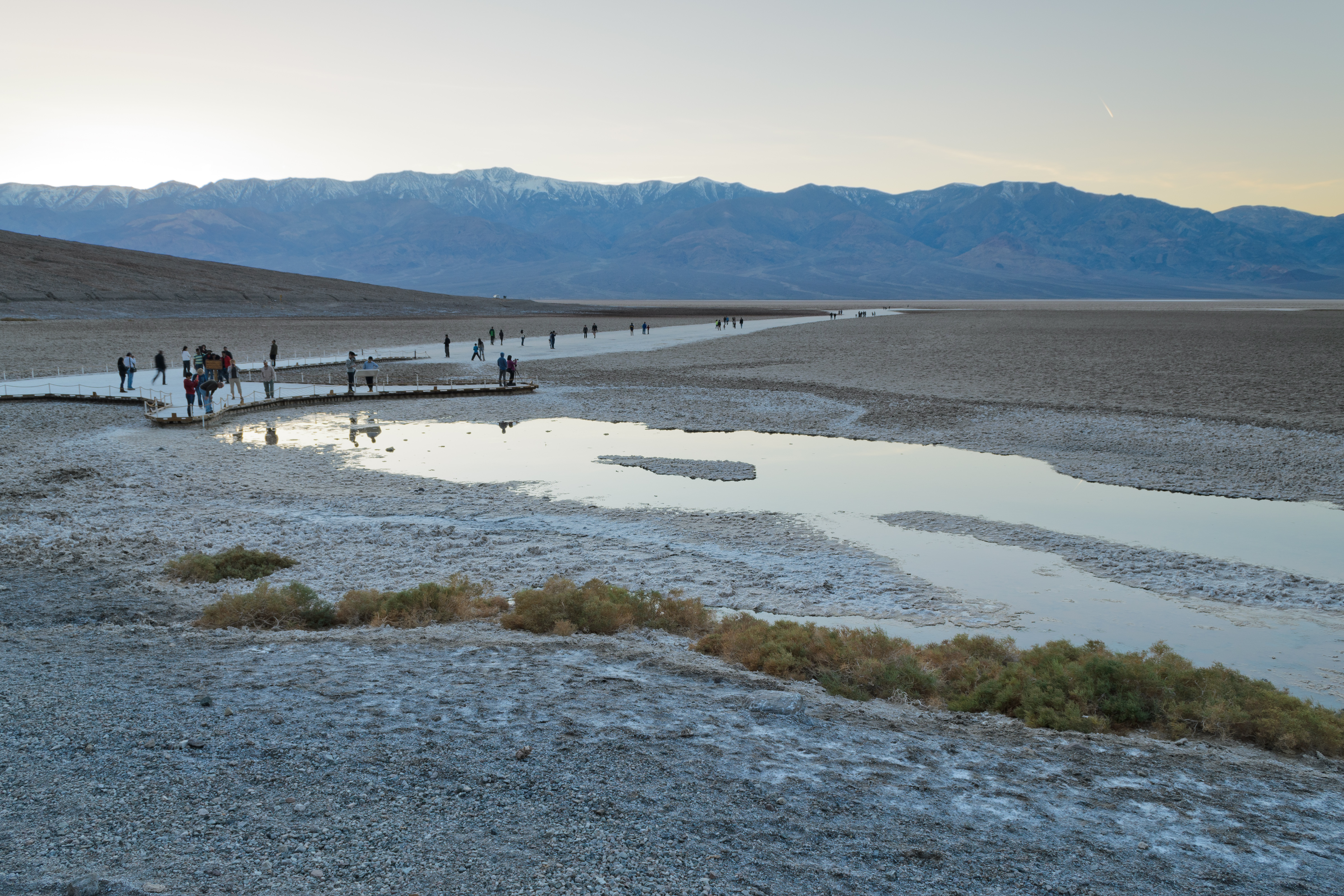 Badwater Basin, Death Valley National Park, California.